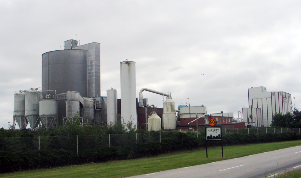 Lyckeby Starch factory in Mjällby, Sweden